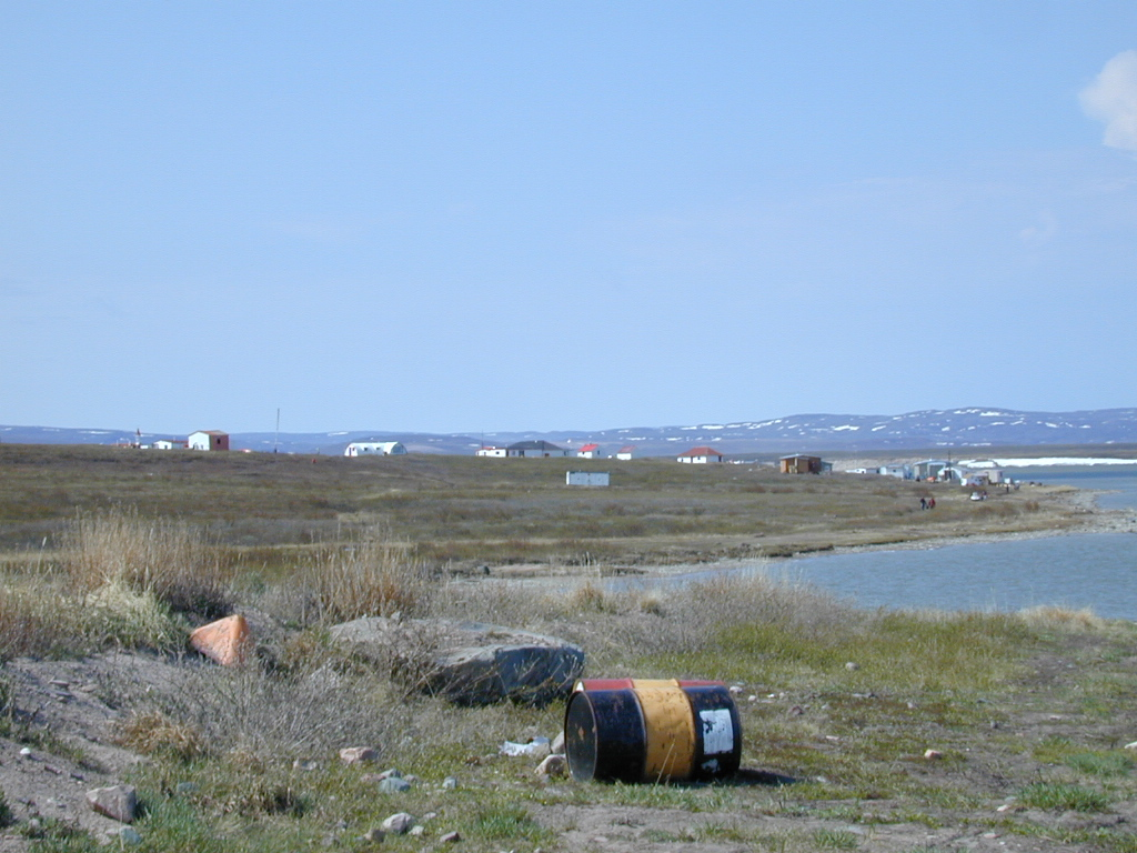 20 June 1999. Looking from the landing strip towards Bathurst Inlet. Visible are the old Hudson's Bay Company buildings in their traditional red and white colours.